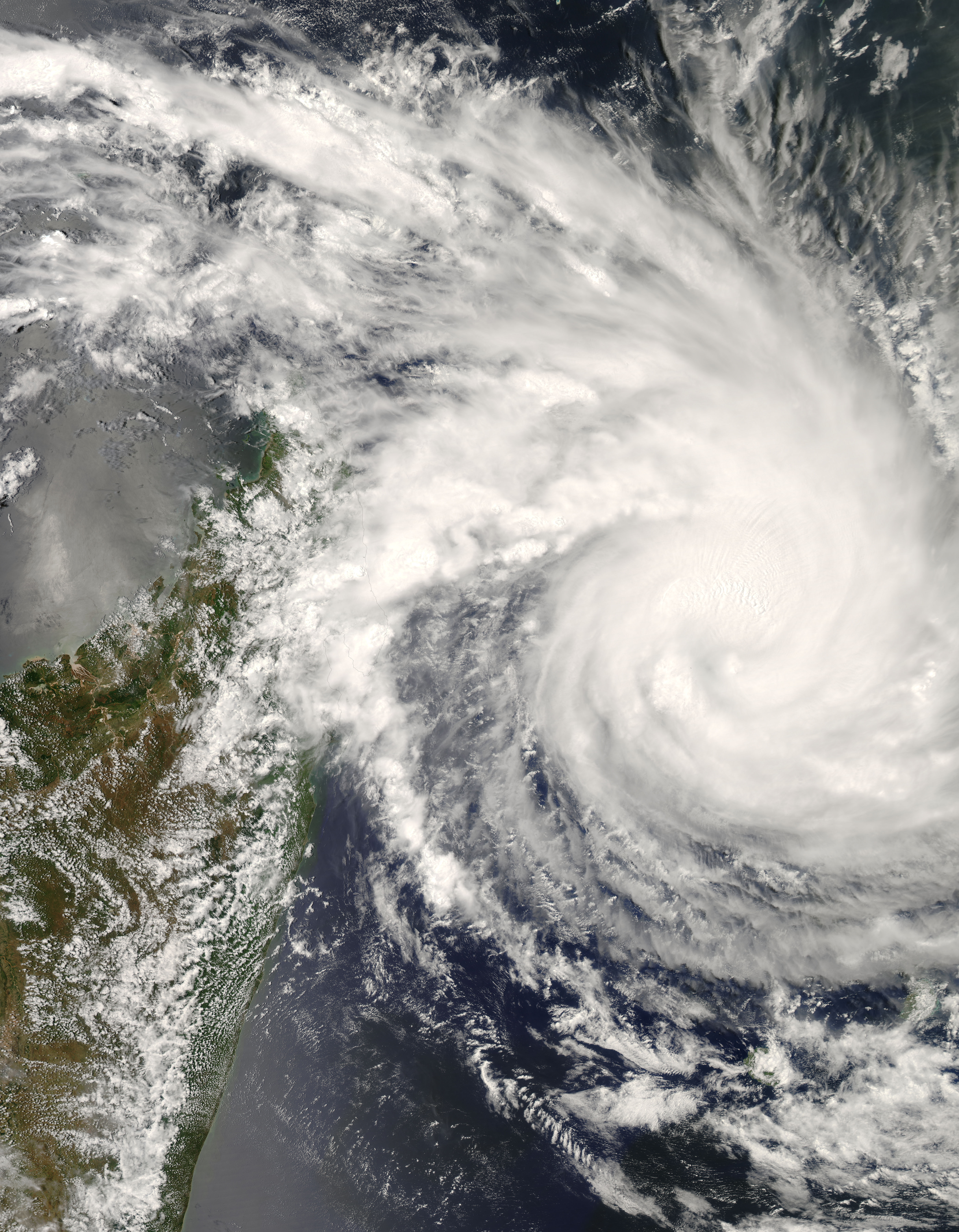 Tropical Cyclone Ivan seen from Aqua satellite at 1025Z Feb 15, 2008